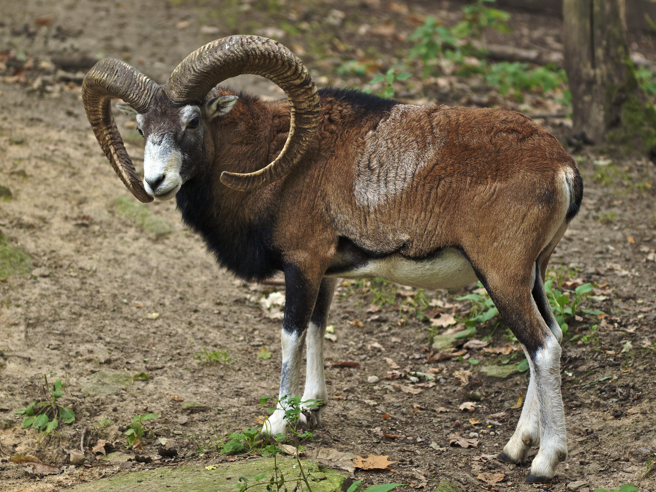 European Mouflon (Ovis orientalis musimon), Chemnitz, Germany